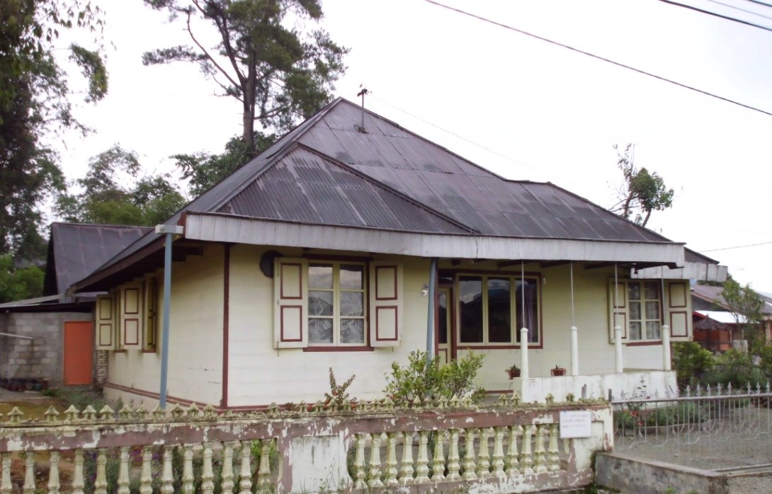 Rumah Kelahiran Natsir